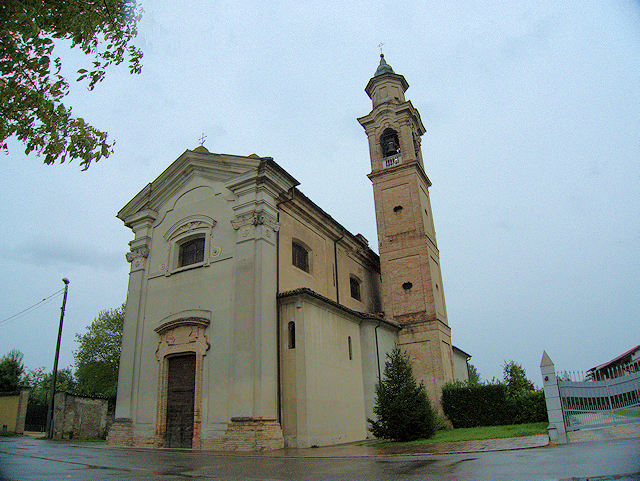 The parish church of Vergonzana, province of Cremona, Italy